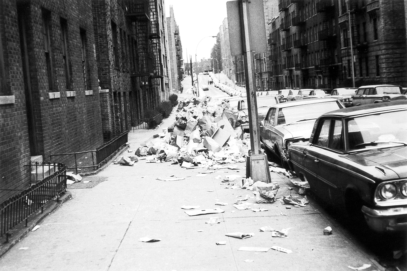 This was a common scene throughout NYC in 1968 when we had a sanitation workers strike.